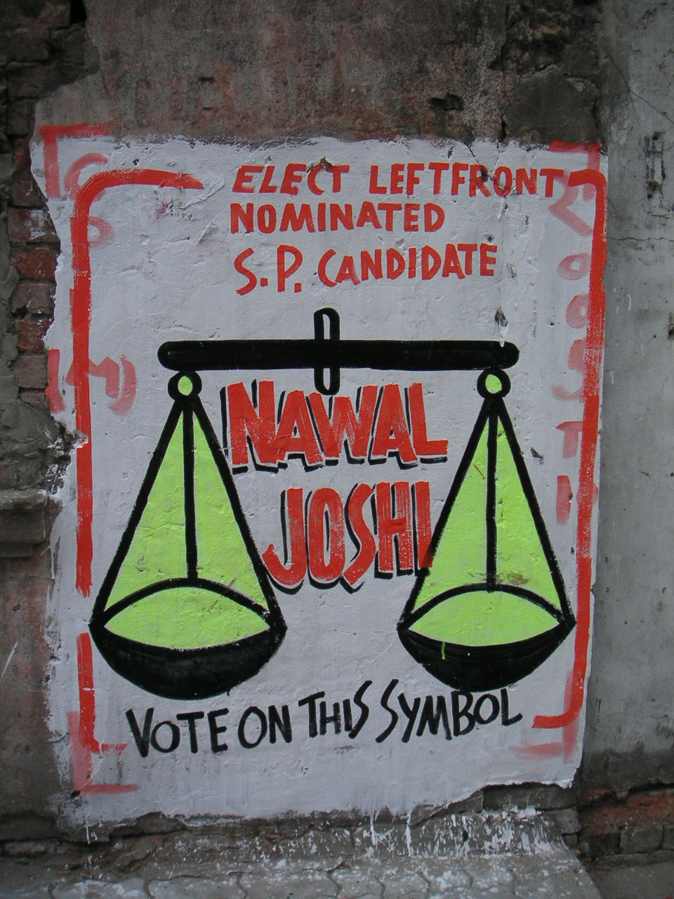 Campaign mural for West Bengal Socialist Party candidate Nawal Joshi for the 2005 Kolkata Municipal Corporation elections. Photo: Soman